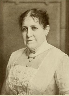 Elise J. Blattner, Kajiwara Photo, Johnson, Anne (André) "Mrs. Charles P. Johnson", 1871-. Notable women of St. Louis, 1914; (Kindle Location 4402). [St. Louis, Woodward.